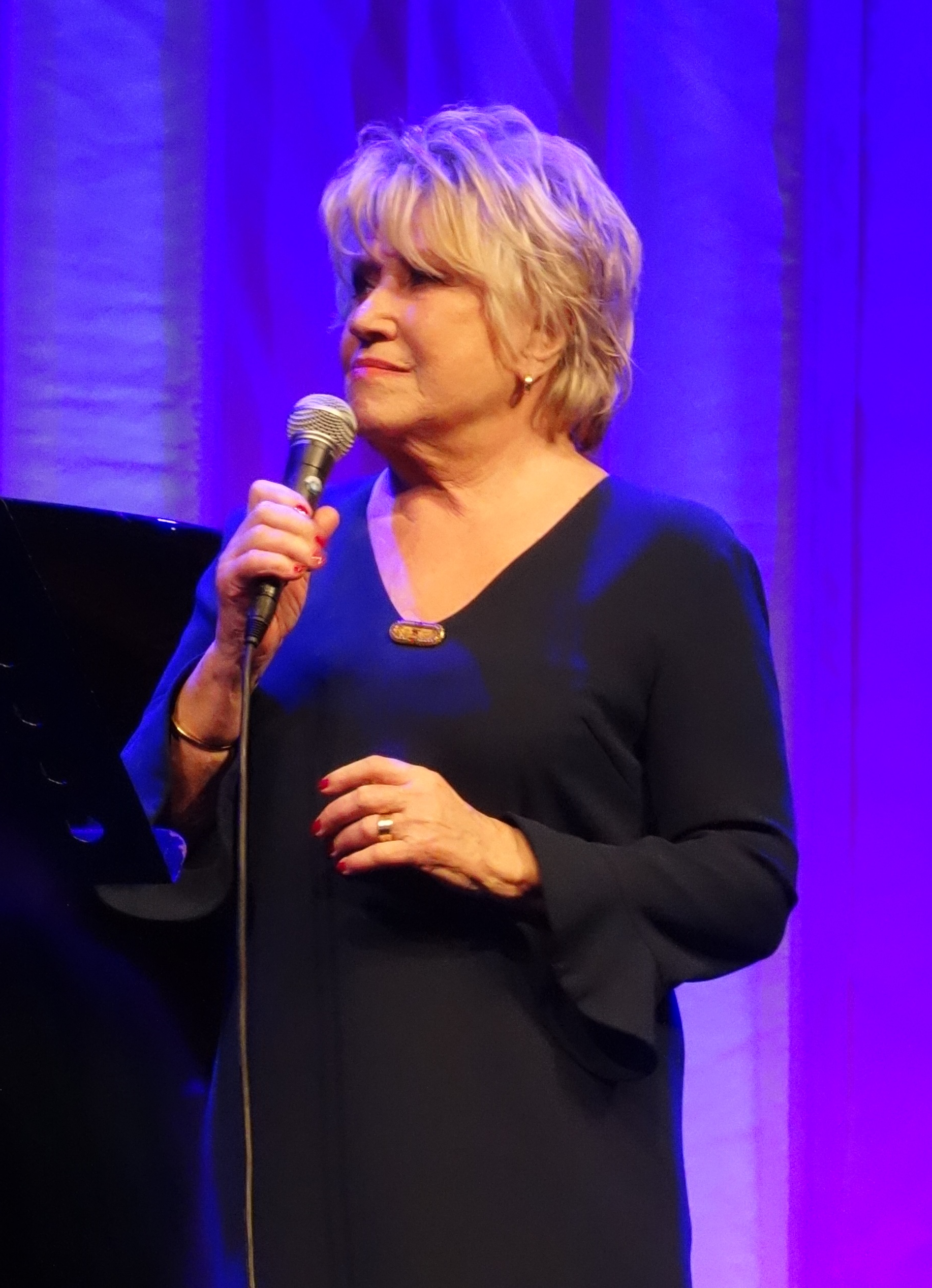 Dutch vocalist Jenny Arean at Festival Winternachten, The Hague, 2019